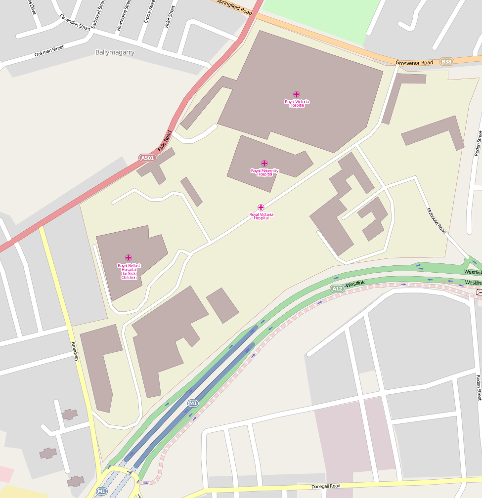 Open Street Map of the Royal Victoria Hospital complex in Belfast, Northern Ireland. Downloaded from the Open Street Map website.